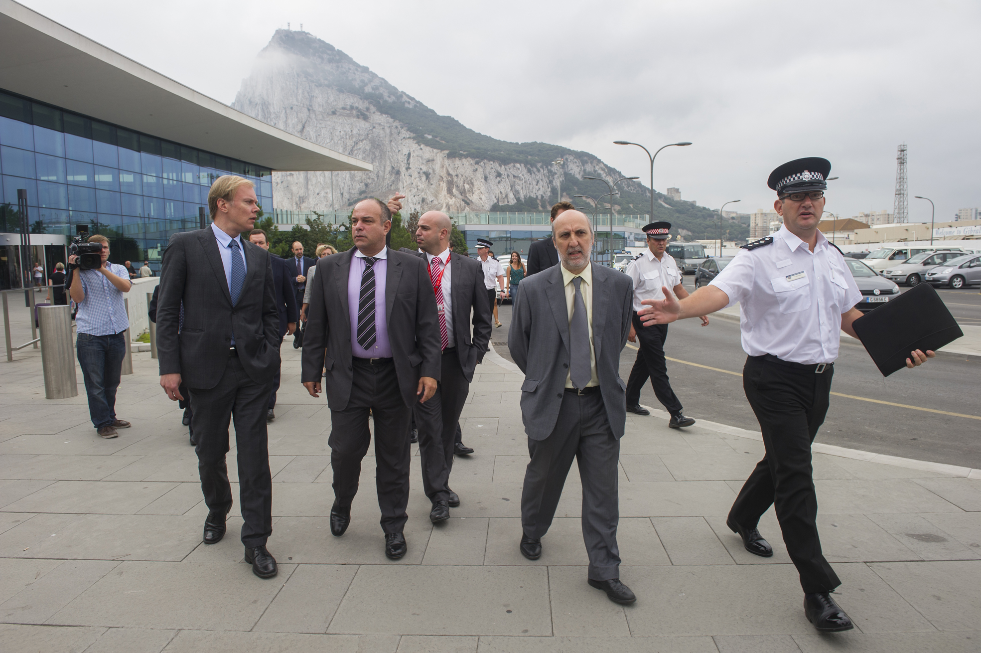 A team of six European Commission inspectors assess the situation at the Gibraltar-Spain border.